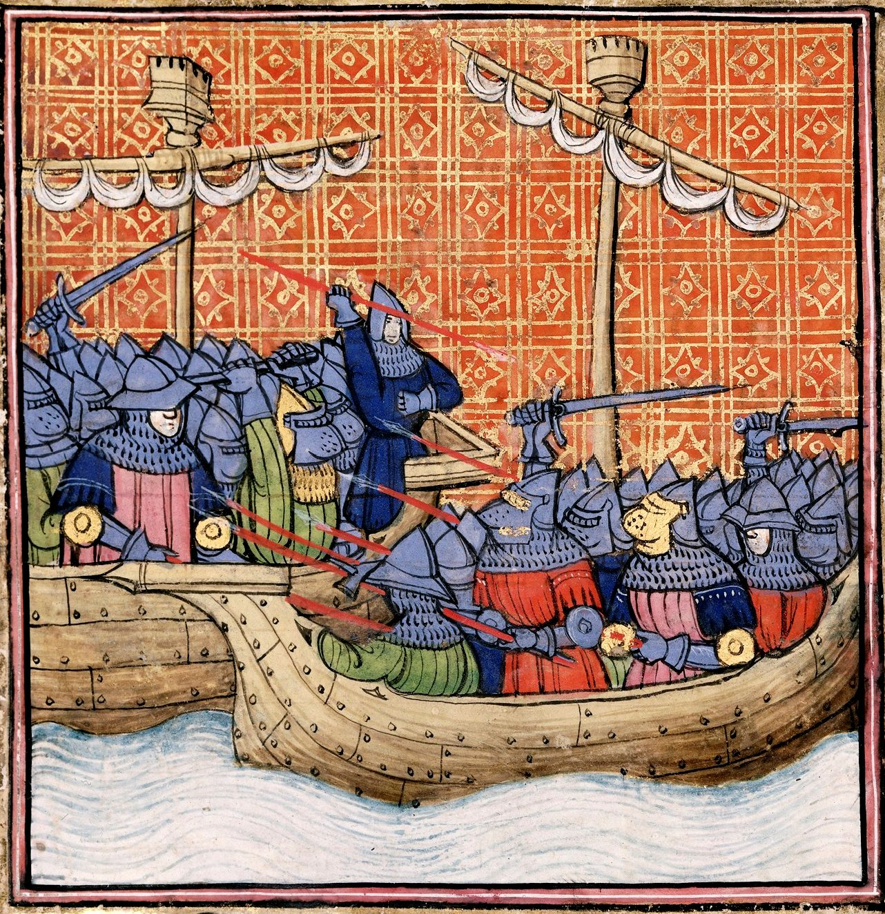 Detail of a miniature of a sea fight off of La Rochelle (1372 ?). Last quarter of the 14th century, after 1380.